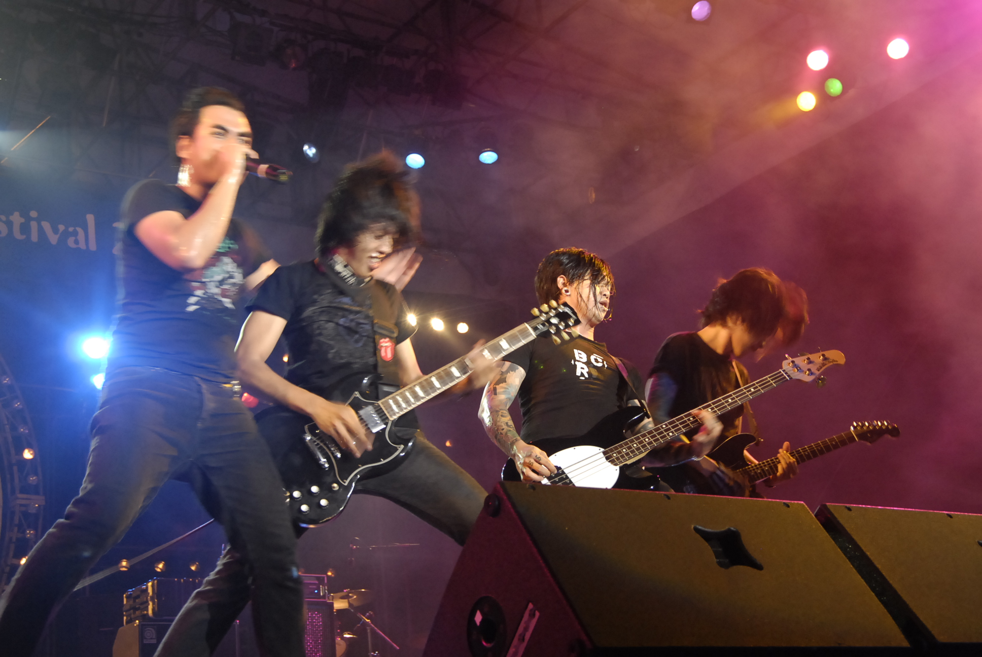 Oblivious (Thai band) at Pattaya International Music Festival 2007